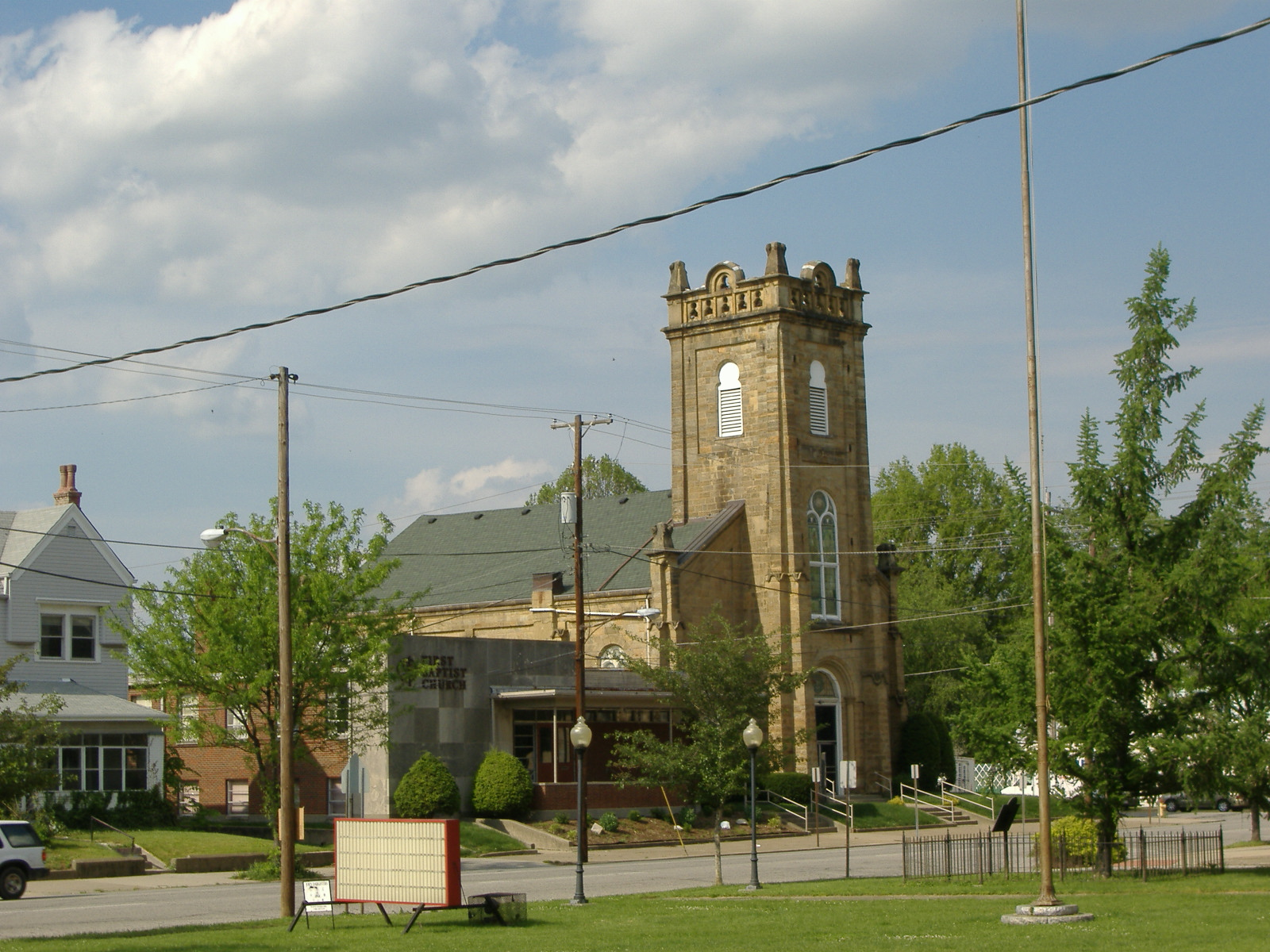 Front and western side of First Baptist Church, located at 813 Spring Street in New Albany, Indiana, United States. It is a part of the East Spring Street Historic District, a historic district that is listed on the National Register of Historic Places.